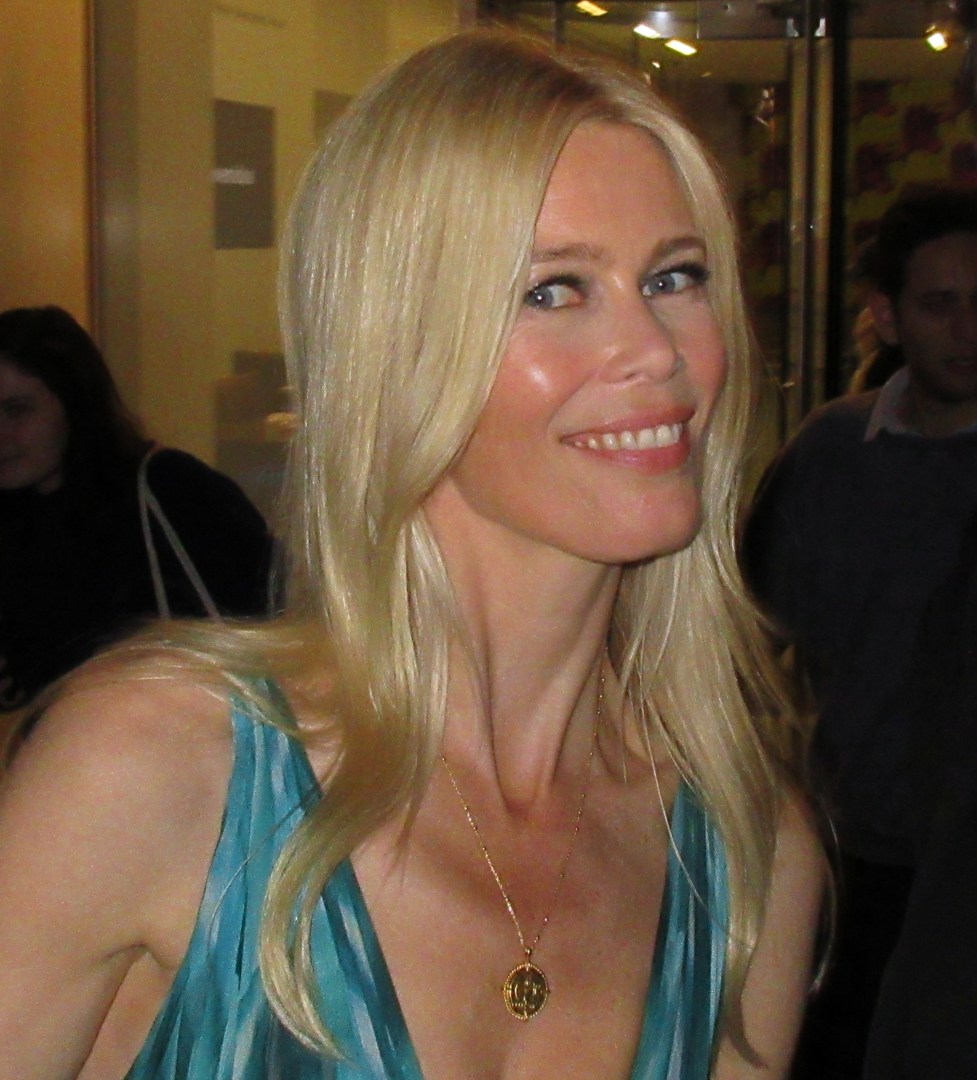 German Supermodel. NYC May '19.